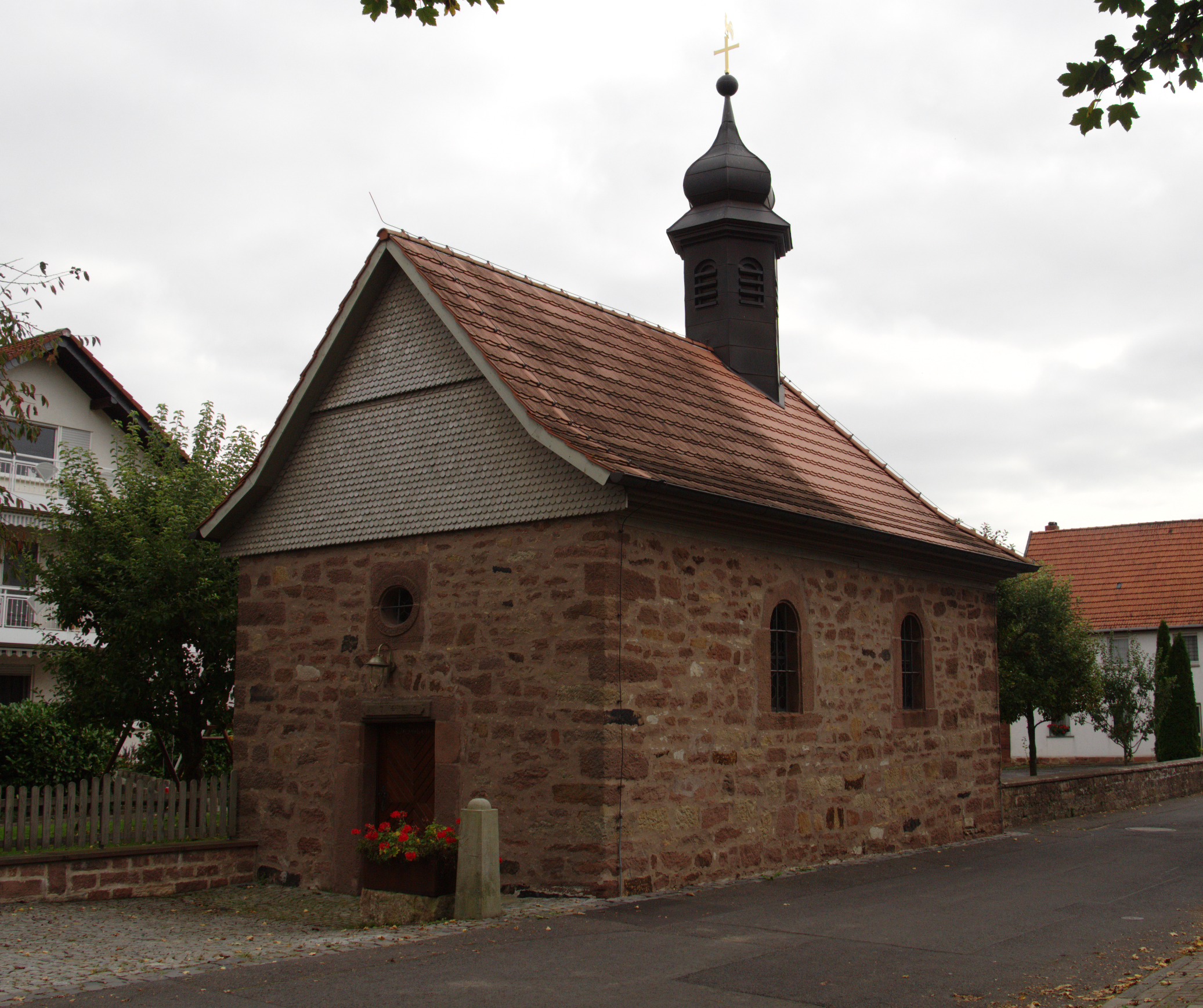 Catholic Church (St. Josef Kapelle) in Mittelrode, Fulda, Hesse, Germany